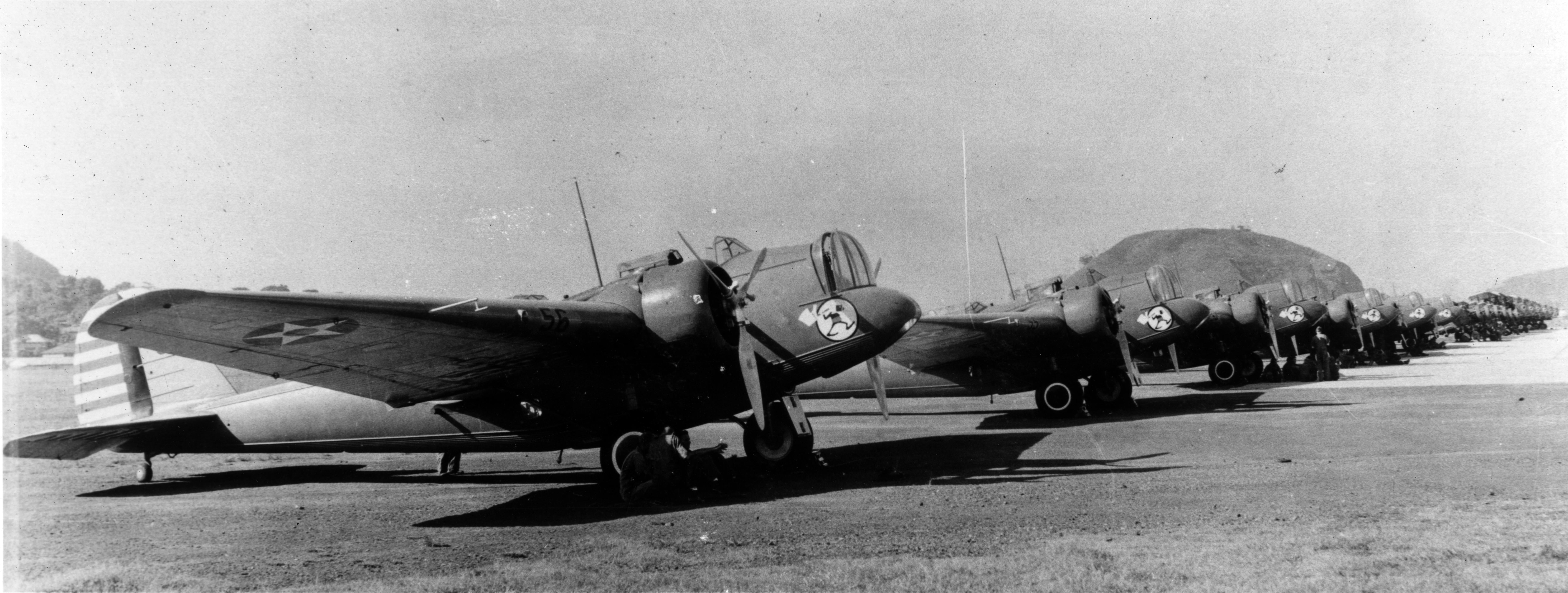 25th Bombardment Squadron B-10s